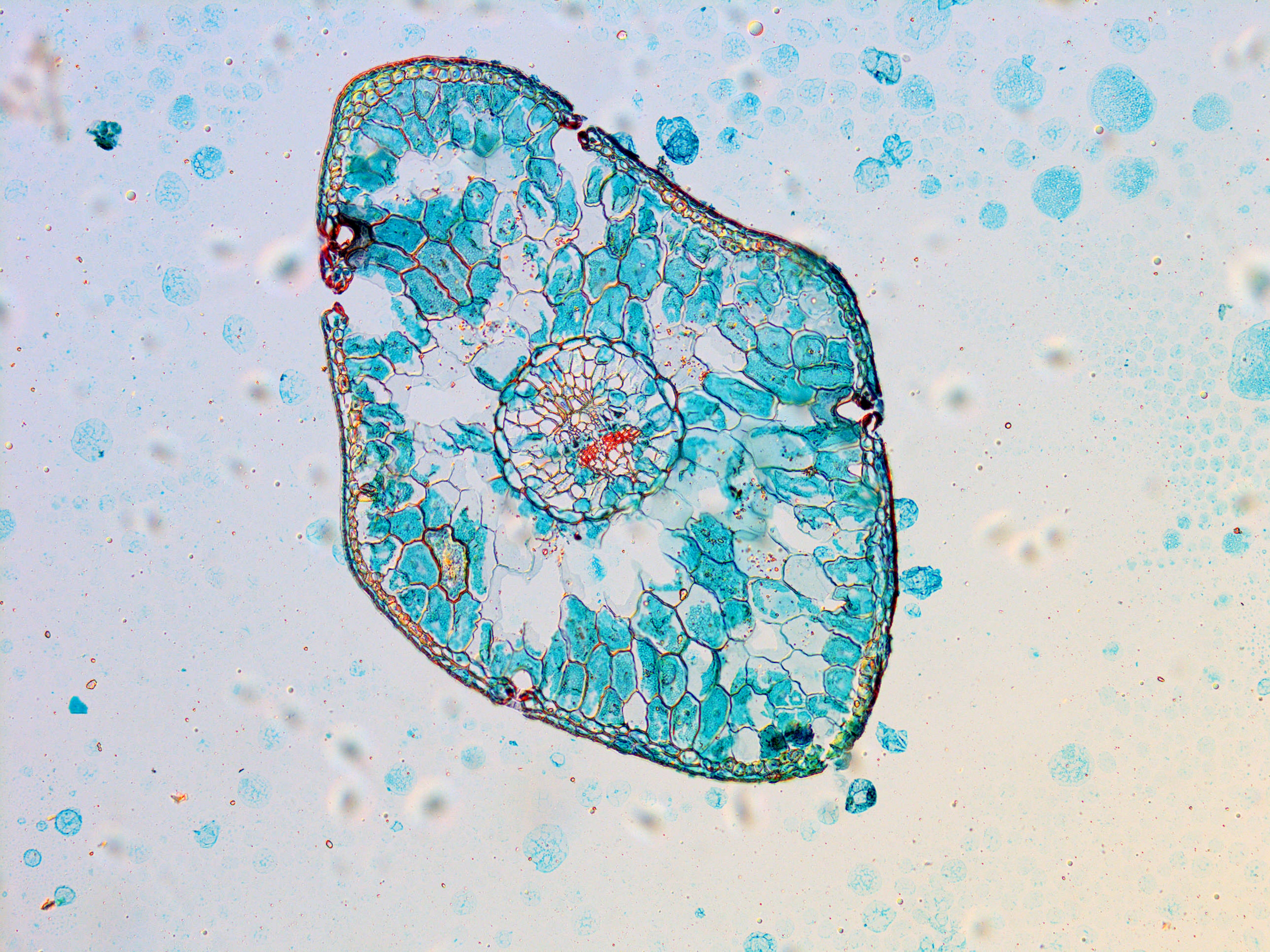 Anatomycal structure of Norway spruce needel.Estonia.